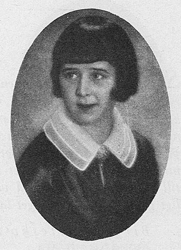 Finnish theatre personality, early 1930s.